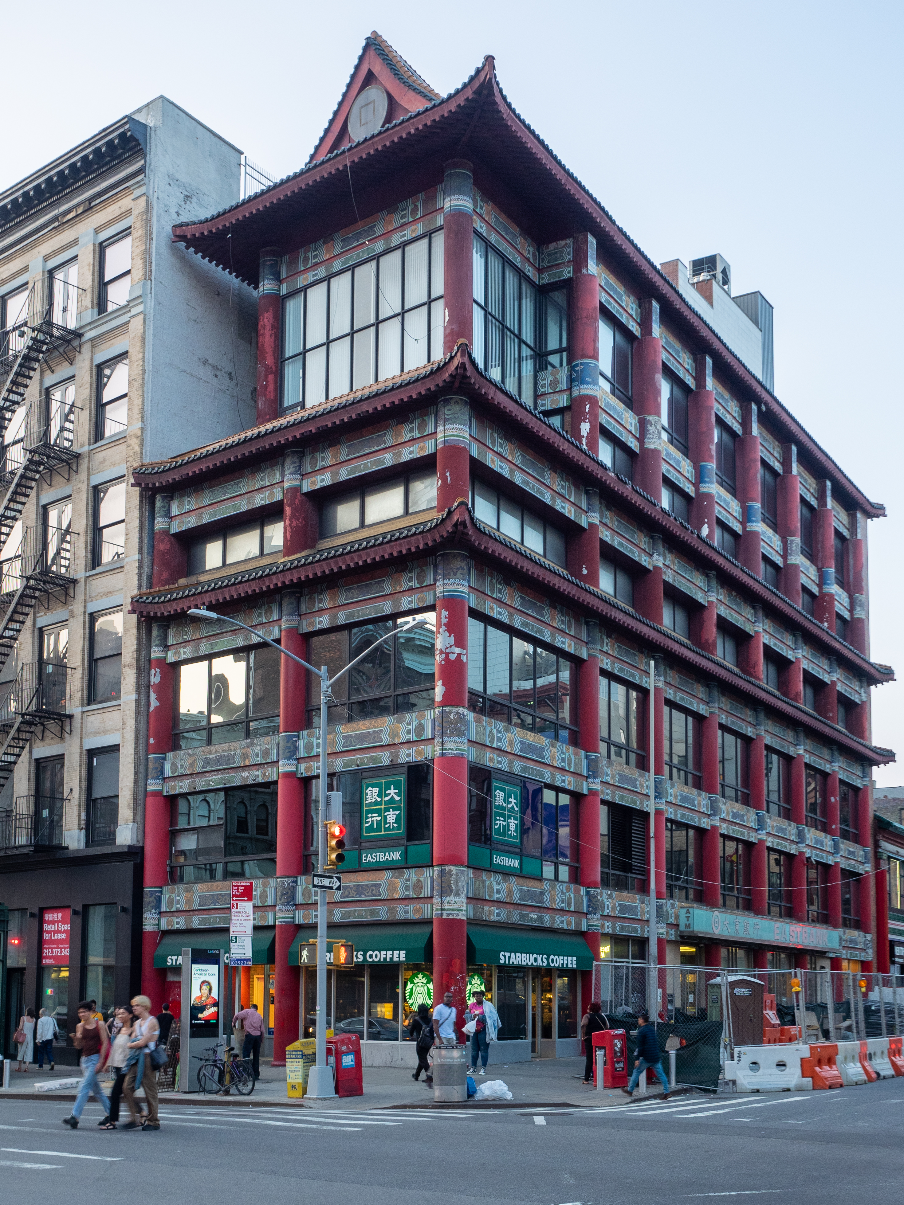 Chinatown, NYC